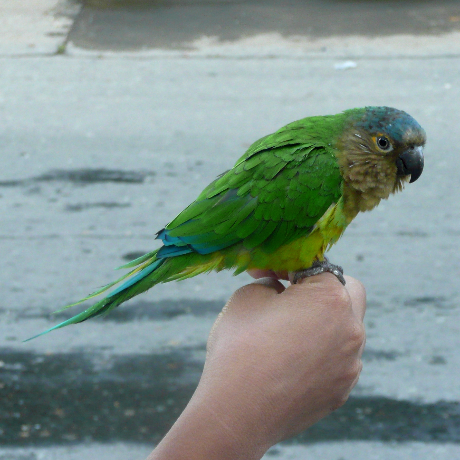 Brown-throated Parakeet (Aratinga pertinax venezuelae) in Cagua, Estado Aragua, Venezuela.